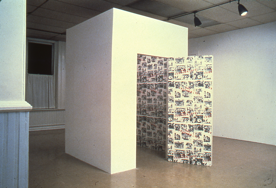 Art for the Artworld Surface Pattern, mixed media installation 152.4 x 152.4 x 213.3 cm: constructed wood environment, custom-printed wallpaper, audio monologue, naked light bulb